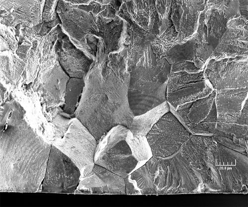 Fracture surface morphology of 304 stainless steel in high-dissolved oxygen environment.